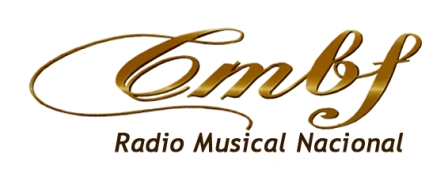 CMBF Radio Logo